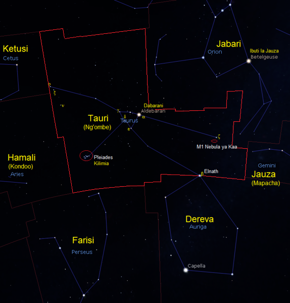 Constellation Taurus as seen from Tanzania, Swahili labelled Kiswahili: Kundinyota Tauri jinsi inavyoonekana kutoka Tanzania, majina kwa Kiswahili